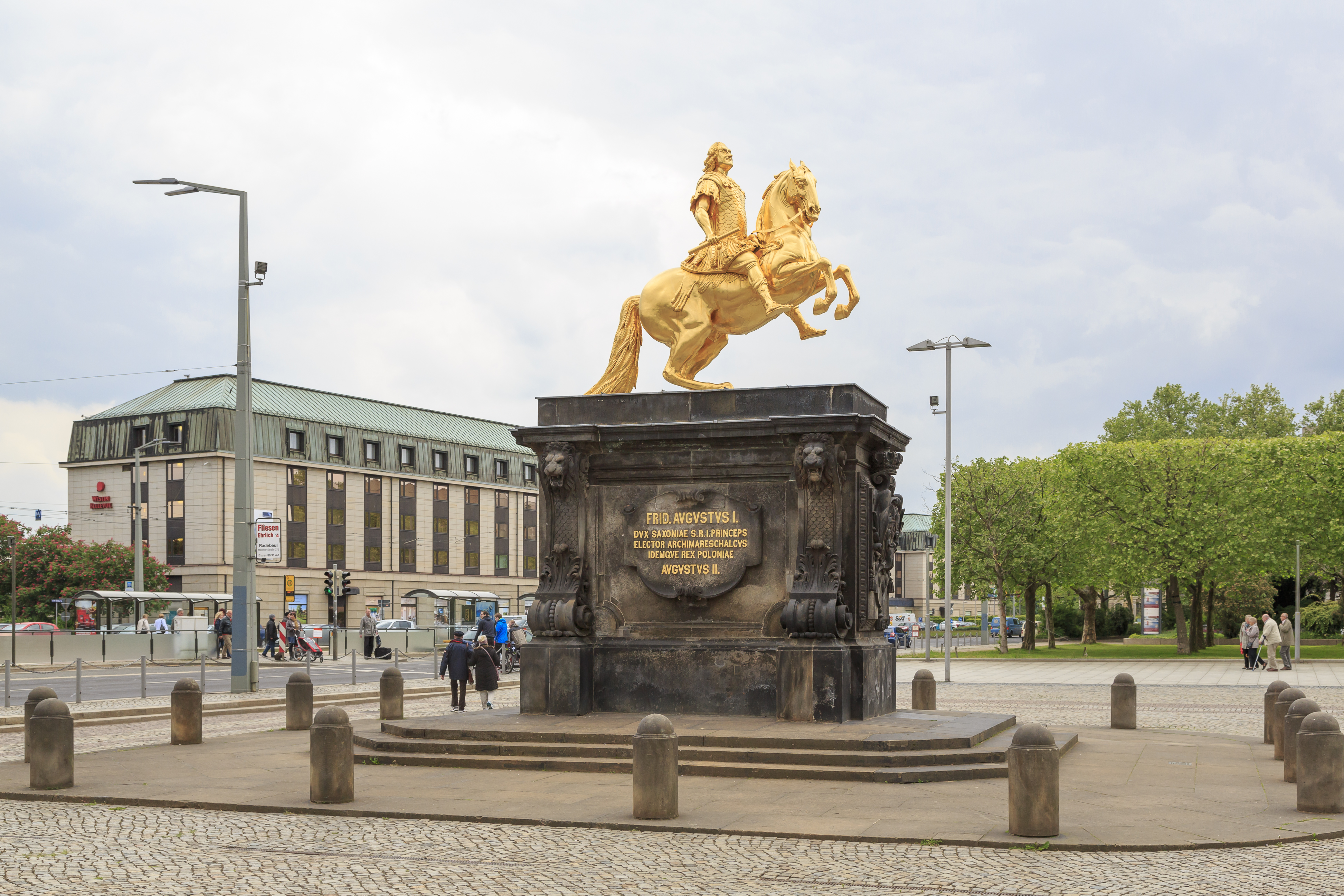 Dresden, Germany: Goldener Reiter, memorial of August II the Strong